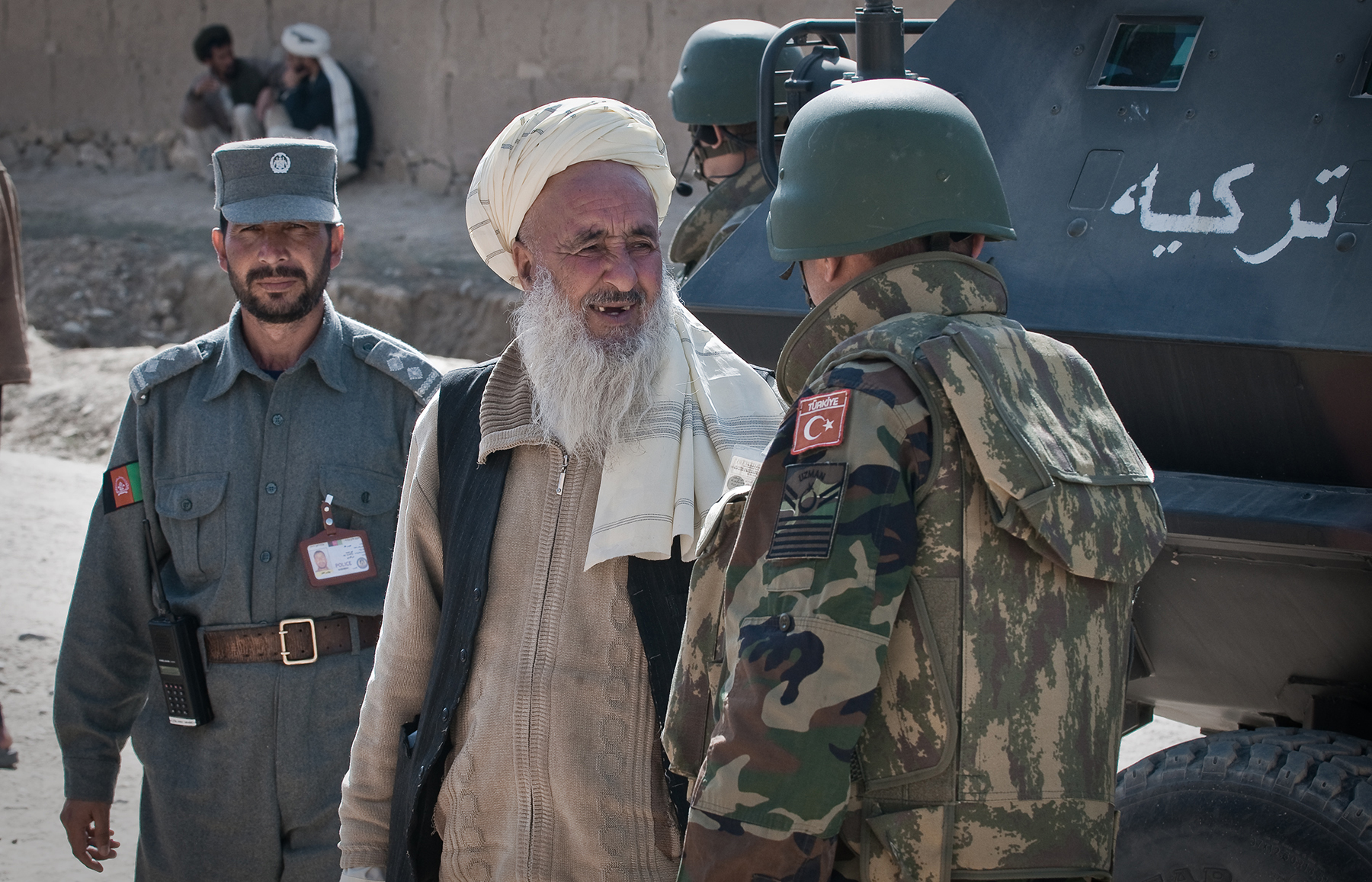 KABUL PROVINCE, Afghanistan (March 17, 2010) –A Turkish Army soldier speaks with a resident of Paymonar in Kabul Province as an Afghan policeman looks on. (Photo by U.S. Navy Petty Officer 1st Class Mark O’Donald/Released)